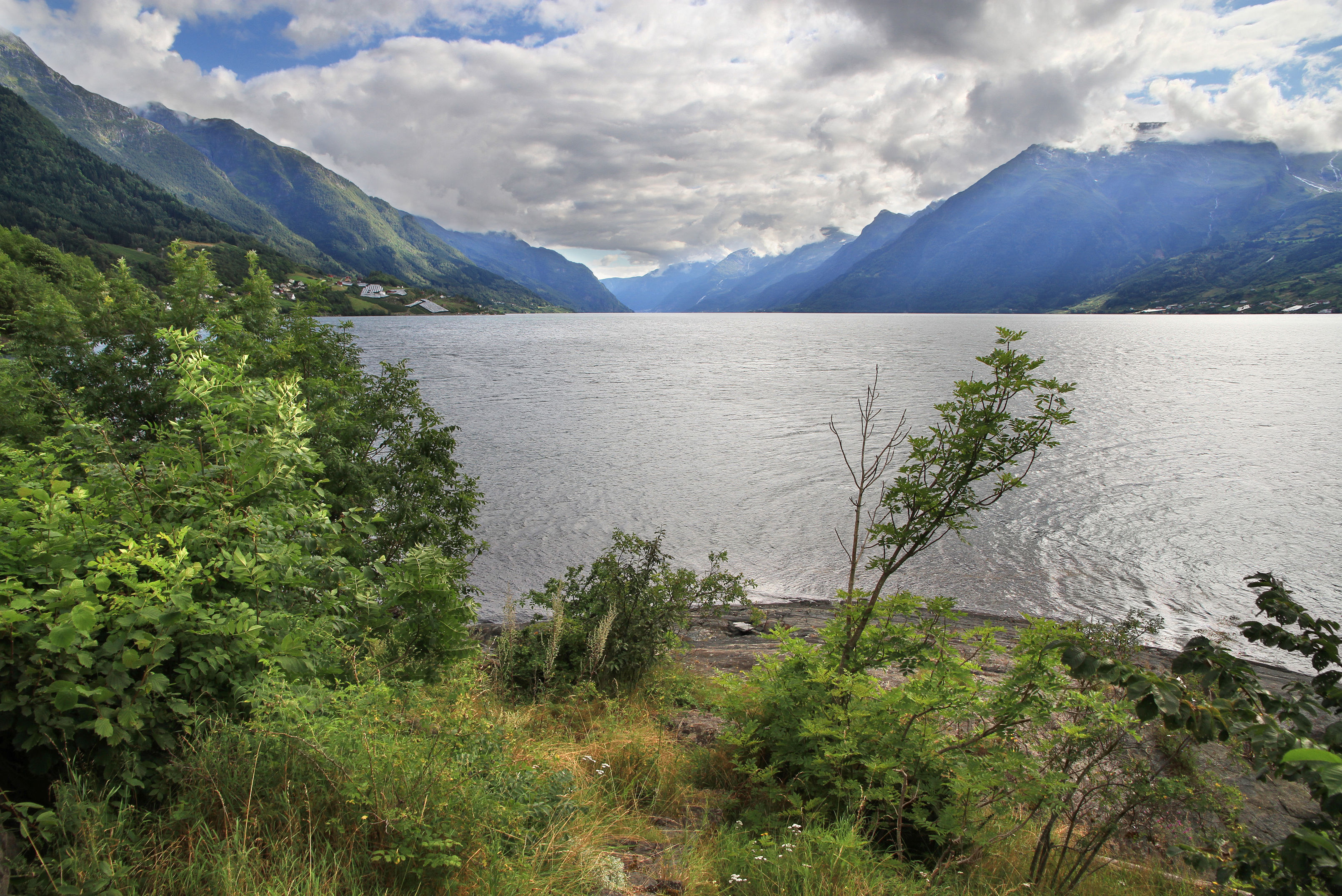 Sørfjorden (part of Hardangerfjorden) as seen towards south in 2011 August.